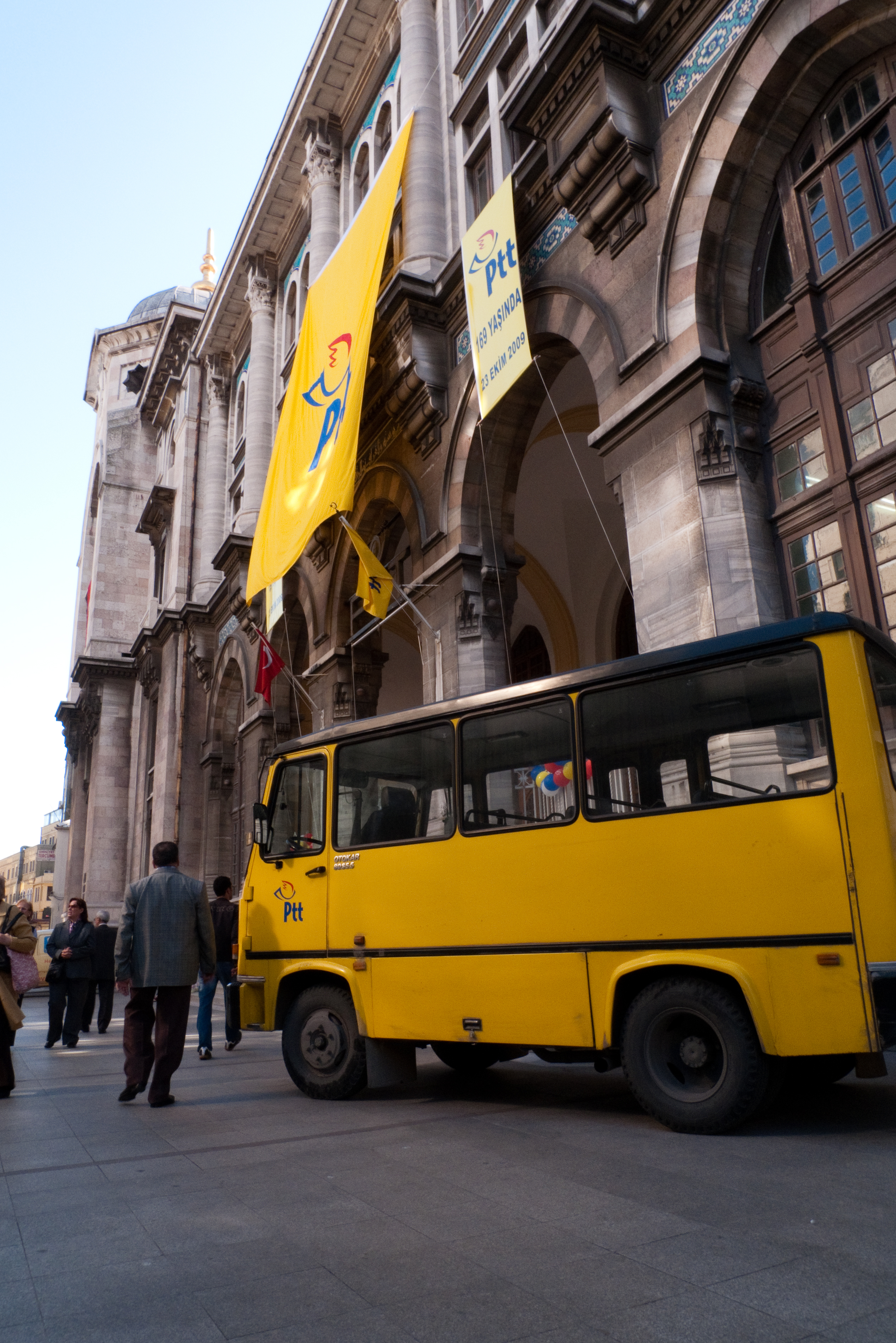 Post Office - Istanbul, Turkey